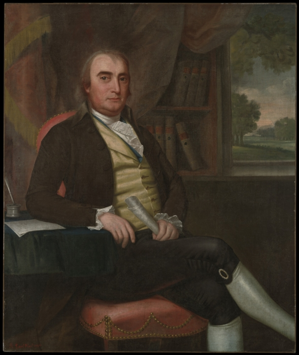 "John Davenport (1750-1830), B.A. 1770, M.A. 1773,". Gift of Miss Harriett C. Davenport to Davenport College, Yale. Courtesy of the Yale University Art Gallery, Yale University, New Haven, Conn.